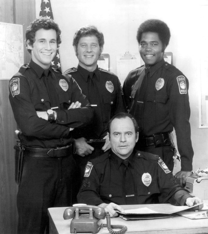 Cast of the television program The Rookies. Standing, from left: Michael Ontkean (Willie Gillis), Sam Melville (Mike Danko), Georg Stanford Brown (Terry Webster). Seated: Gerald S. O'Loughlin (Eddie Ryker).